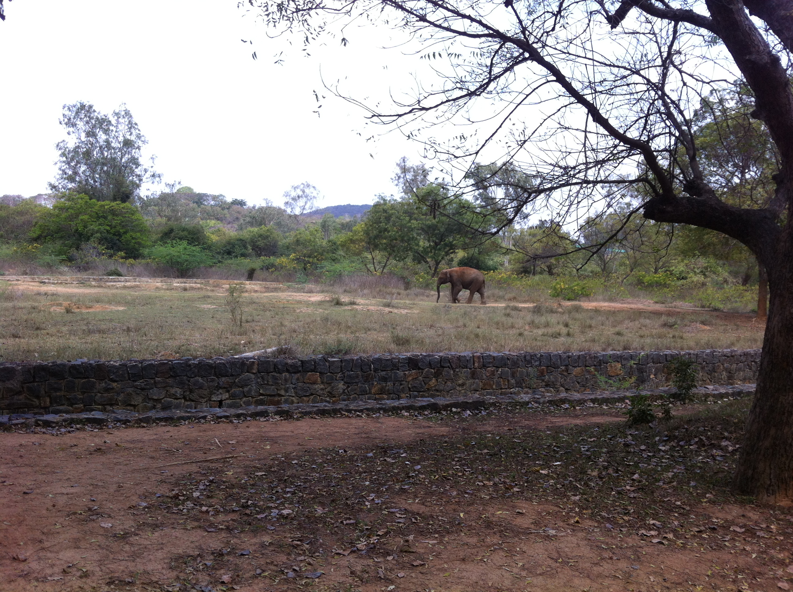 An Elephant in Arignar Anna Zoological Park, Vanadalur, Chennai India